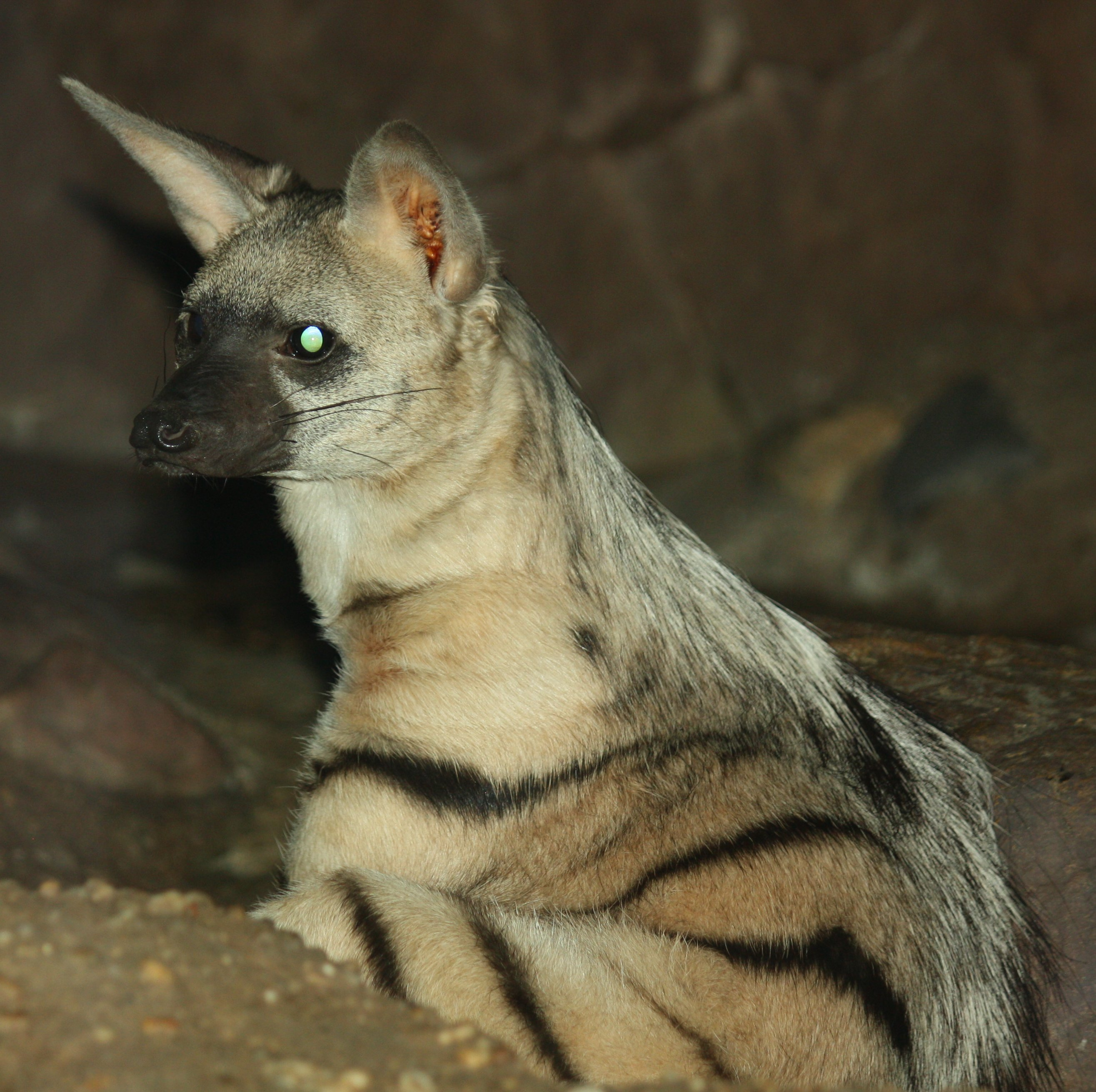 Aardwolf "Proteles Cristatus at Cincinnati Zoo